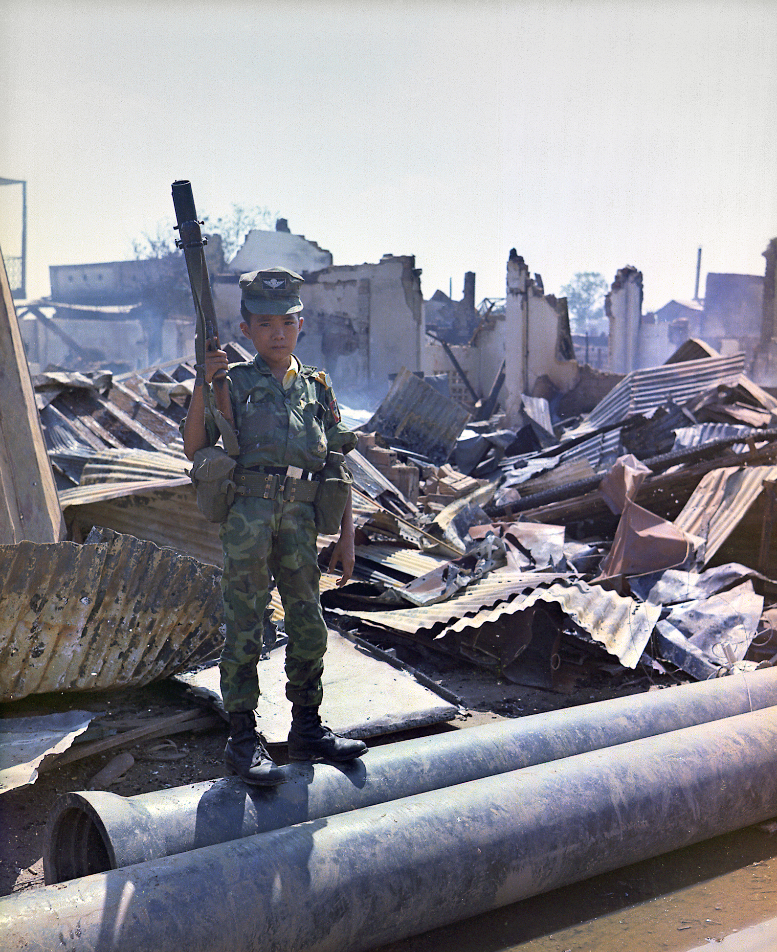 Tan Son Nhut, Vietnam. This twelve year old ARVN Airborne trooper with M-79 grenade launcher accompanied the Airborne Task Force Unit on a sweep through the devastated area surrounding the French National Cemetery on Plantation Road after a day long battle there. The young soldier has been "adopted" by the Airborne Division.